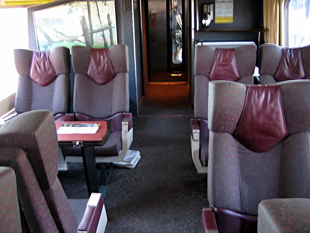 Example of interior seating of a renovated VIA 1 LRC club car.